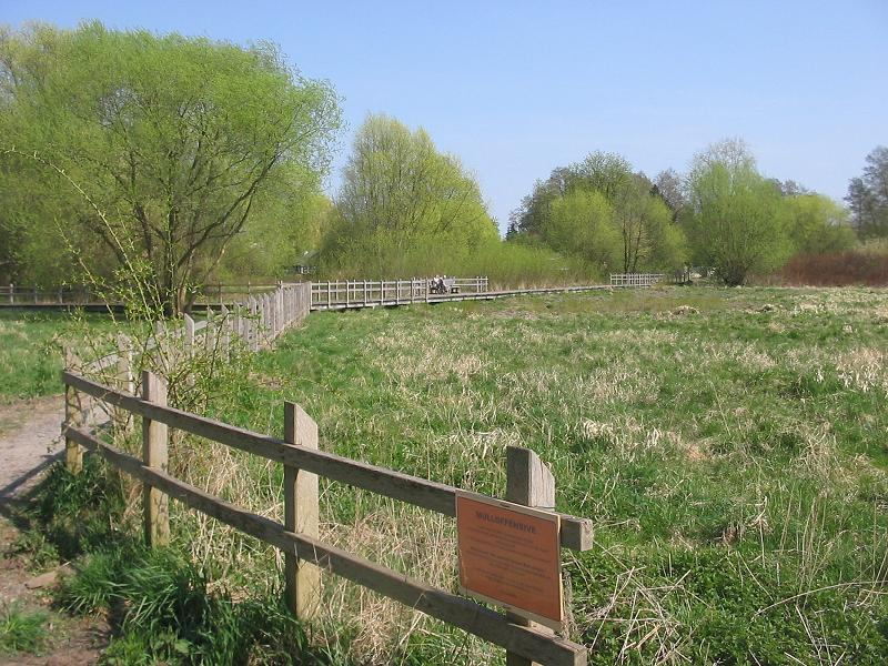 Tiefwerder Wiesen. Tiefwerder is a former village, founded in 1816, in Berlin-Spandau and an ait in Berlin-Wilhelmstadt from river Havel. The Tiefwerder Wiesen (meadows) are a protected area (german: Landschaftsschutzgebiet) and Berlins last natural flood plain and last spawn-area for the Northern pike.